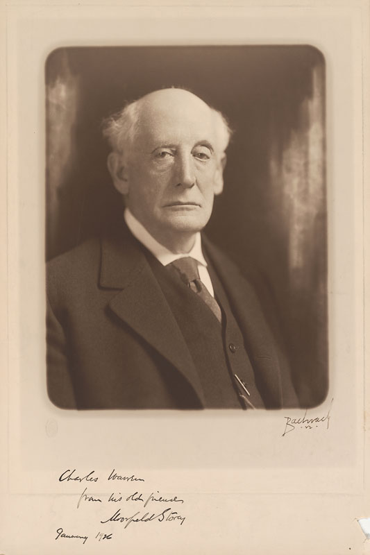 Moorfield Storey (1845-1929)